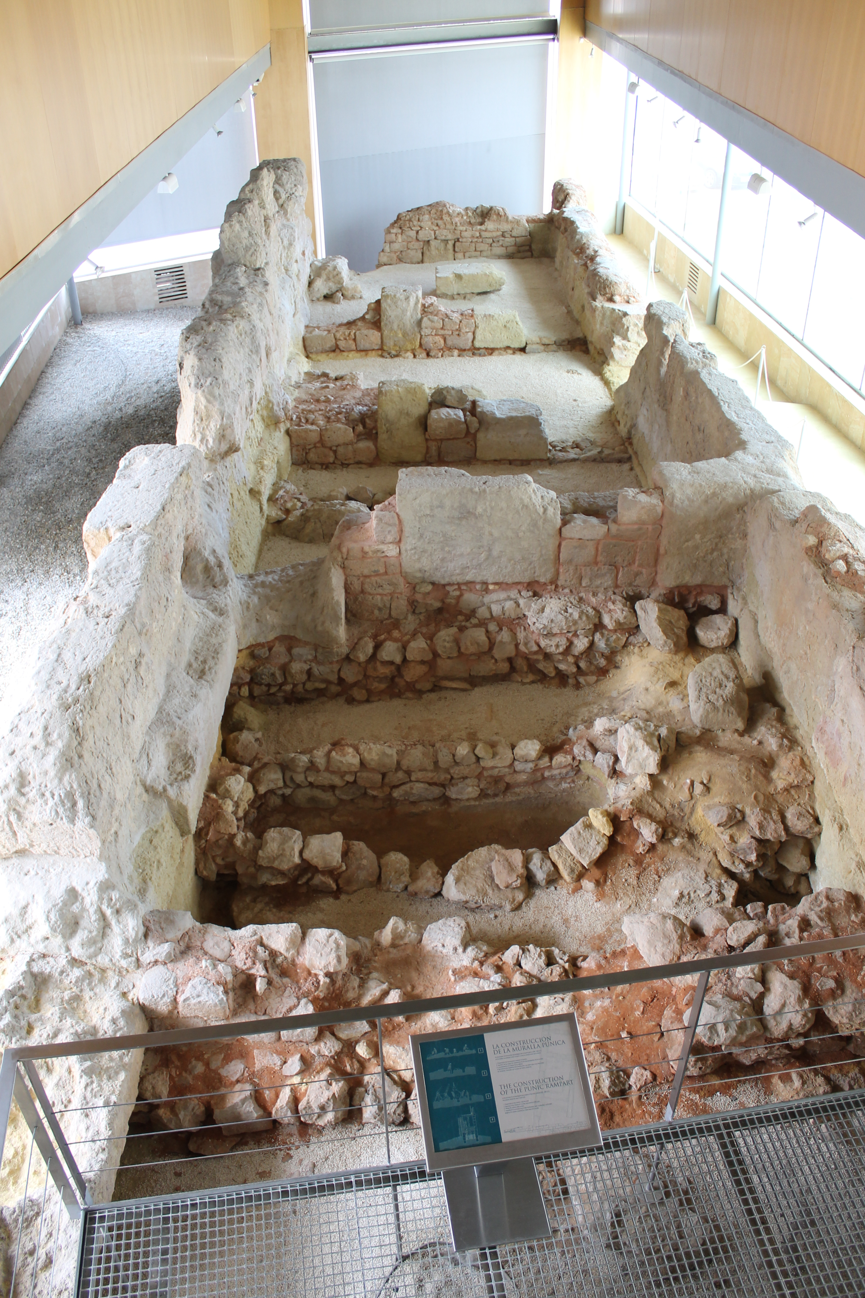 Top view of the archaeological remains of the Punic wall of Cartagena, Spain.